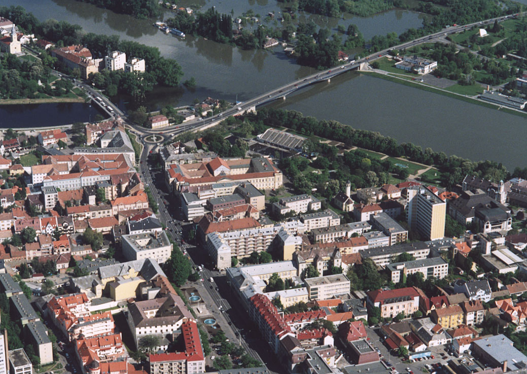 Szolnok - Jász-Nagykun-Szolnok County - Hungary